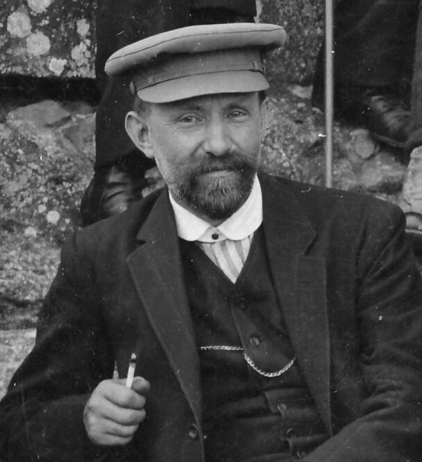 Artist and architect Henryk Hryniewski during the expedition to the Cross Church in Mtskheta.